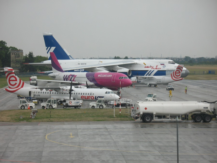 Antonov 124 and smaller aircraft at Wroclaw-Strachowice airport, August 2008